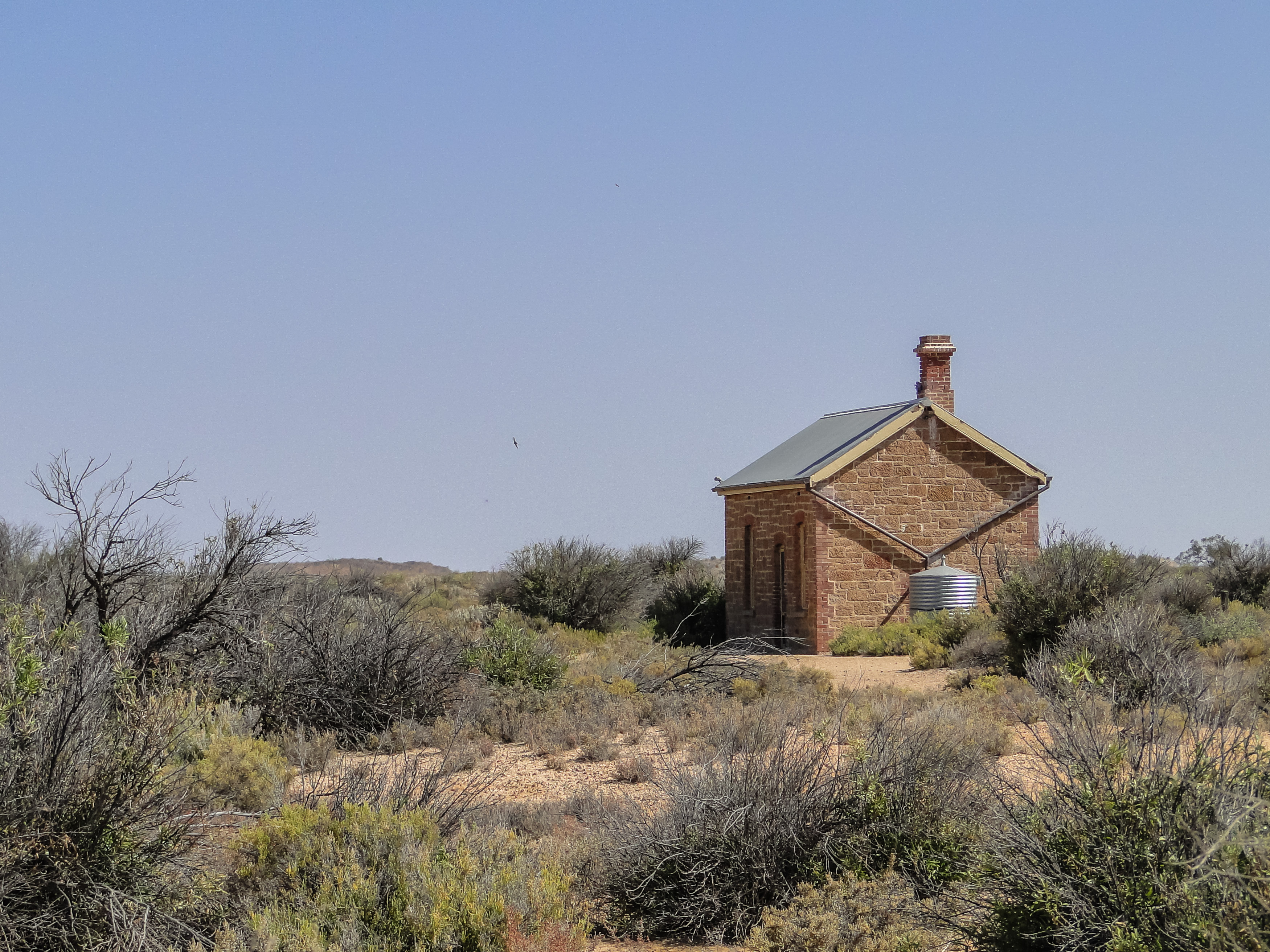 Small two-roomed stone cottage, built for engine drivers accommodation on the Ghan railway line at Coward Springs, South Australia. Restored in the 1990s and now houses a small museum.